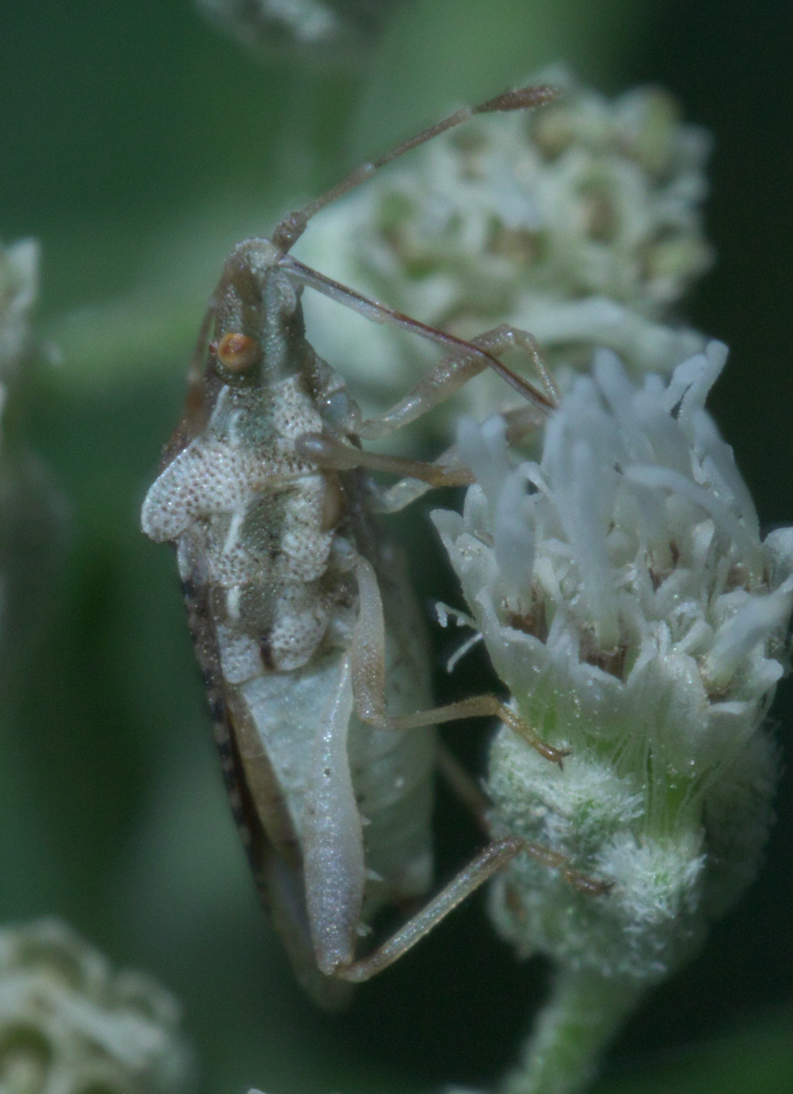 Harmostes fraterculus, Family: Scentless Plant Bugs, ID Confidence: 98